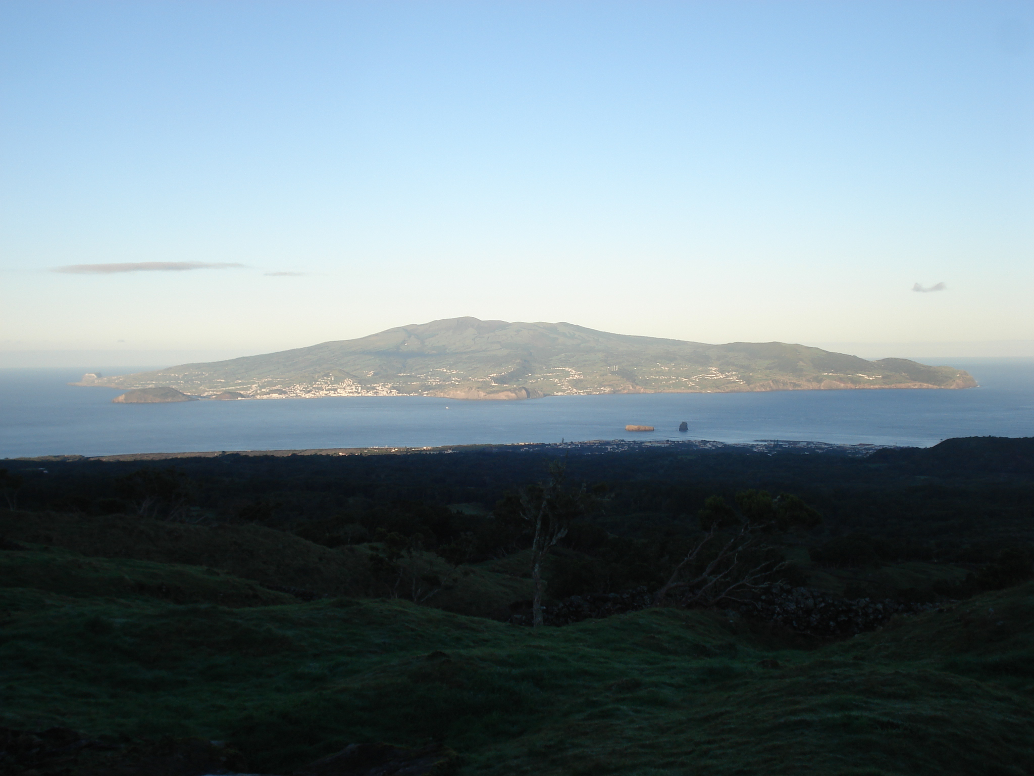 Island of Faial, as seen from the summit of Pico, Azores